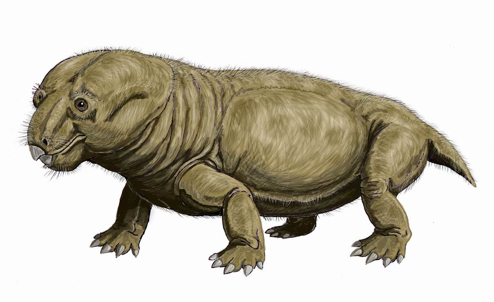 Endothiodon bathystoma.